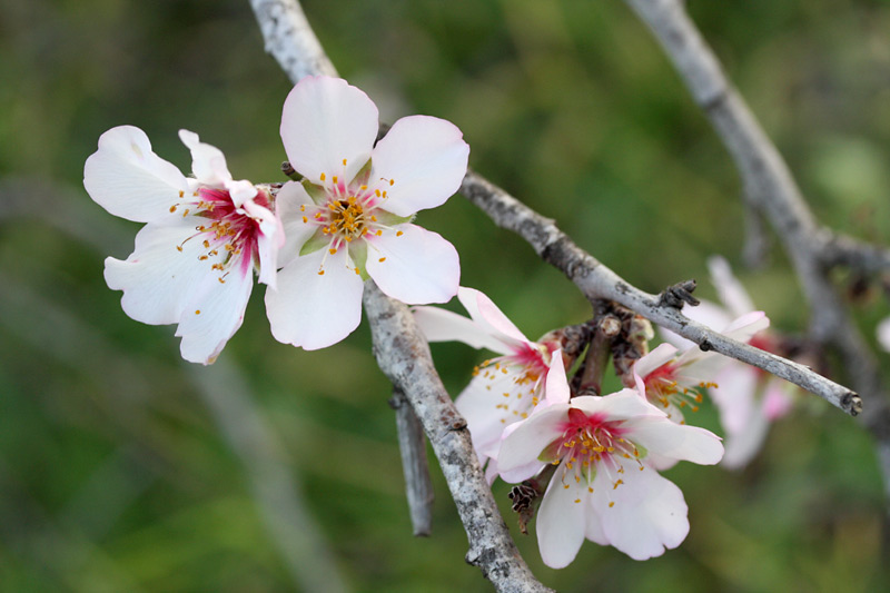 Amond blossom, Plants of Israel